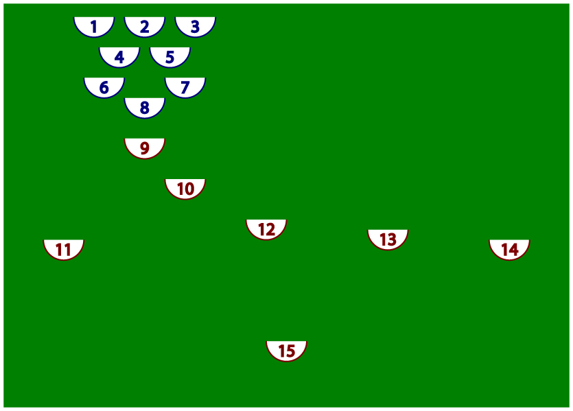 Number and place of rugby players